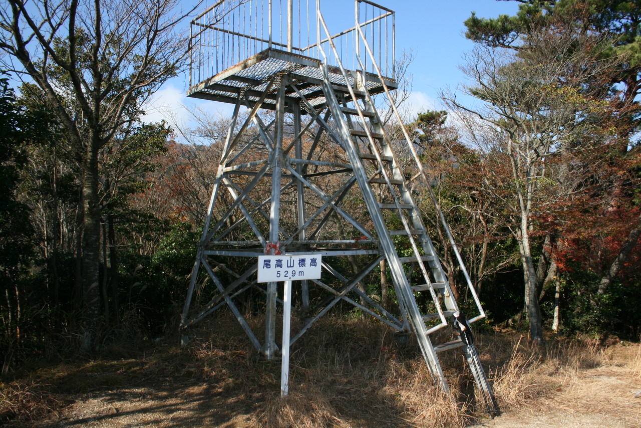 Odakayama_Top_2009_11_26